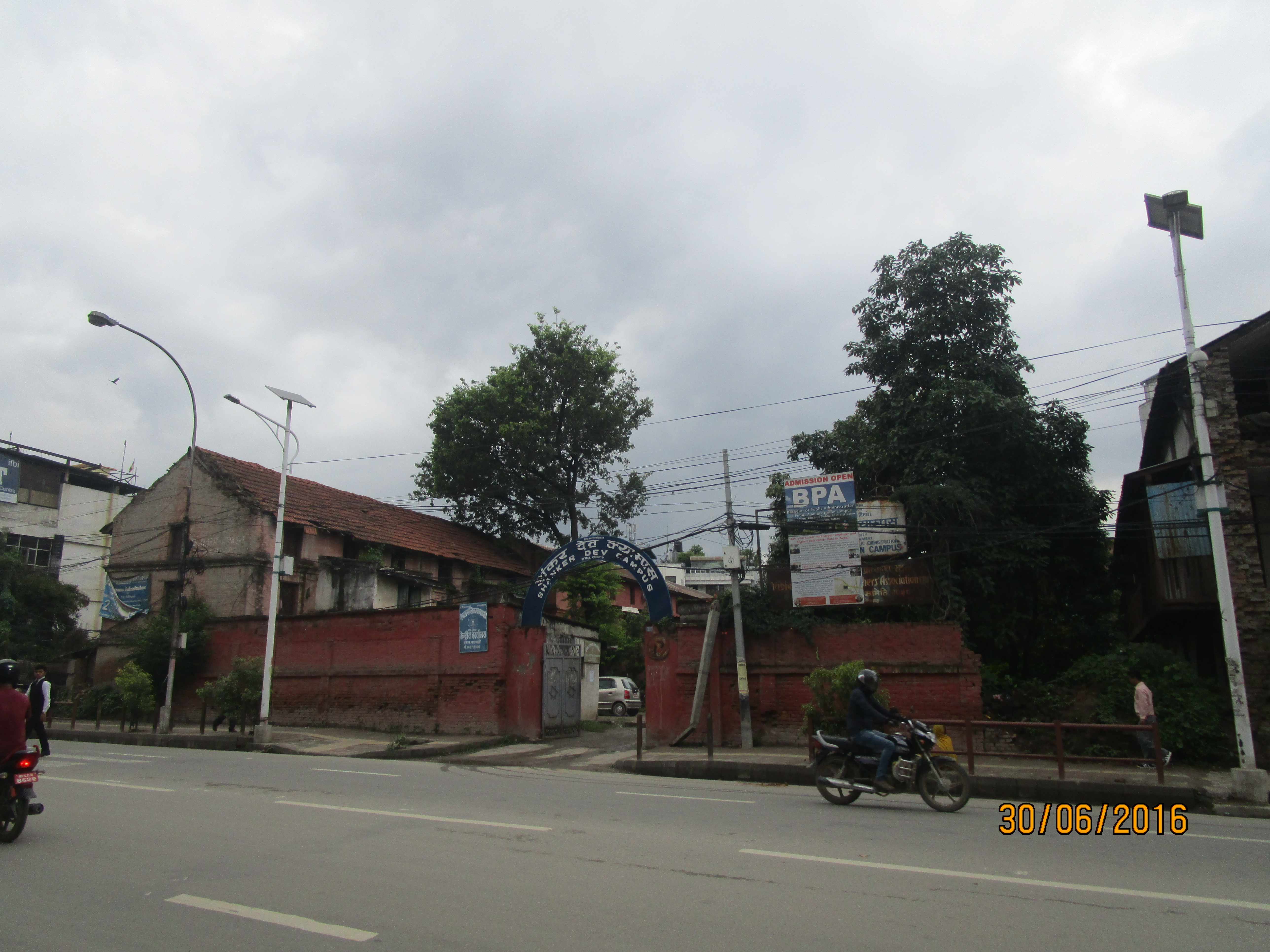 Shanker Dev Campus at Jamal